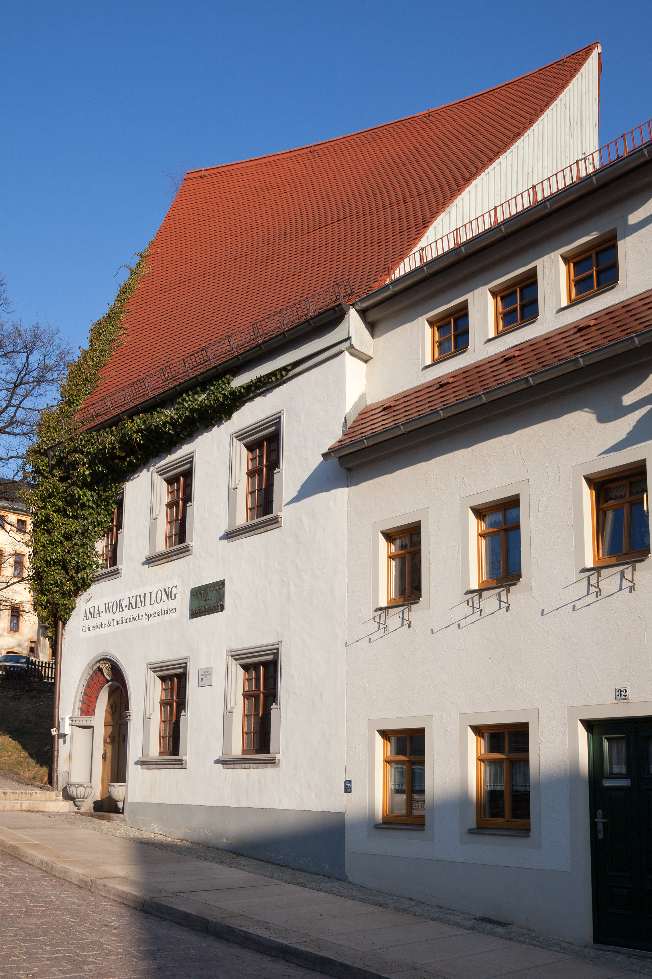 Freiberg, Wasserturmstraße 34